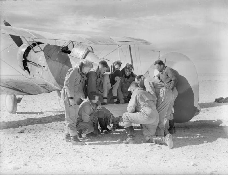 Royal Air Force Operations in the Middle East and North Africa, 1939-1943. Pilots of No. 3 Squadron RAAF study a map on the tailplane of one of their Gloster Gladiators at their landing ground near Sollum, Egypt, before an operation over Bardia during the closing stages of Operation COMPASS. Left to right: Flying Officers J R Perrin J McD Davidson (squatting) W S Arthur P St G Turnbull Flight Lieutenants G H Steege A C Rawlinson Flying Officer V East (unknown) Squadron Leader I D McLachlan (Commanding Officer) Flying Officer A H Boyd